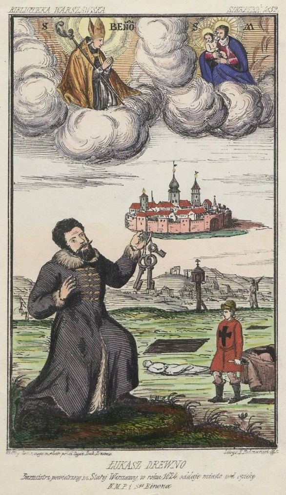 Łukasz Drewno on a drawing by Bolesław Podczaszyński